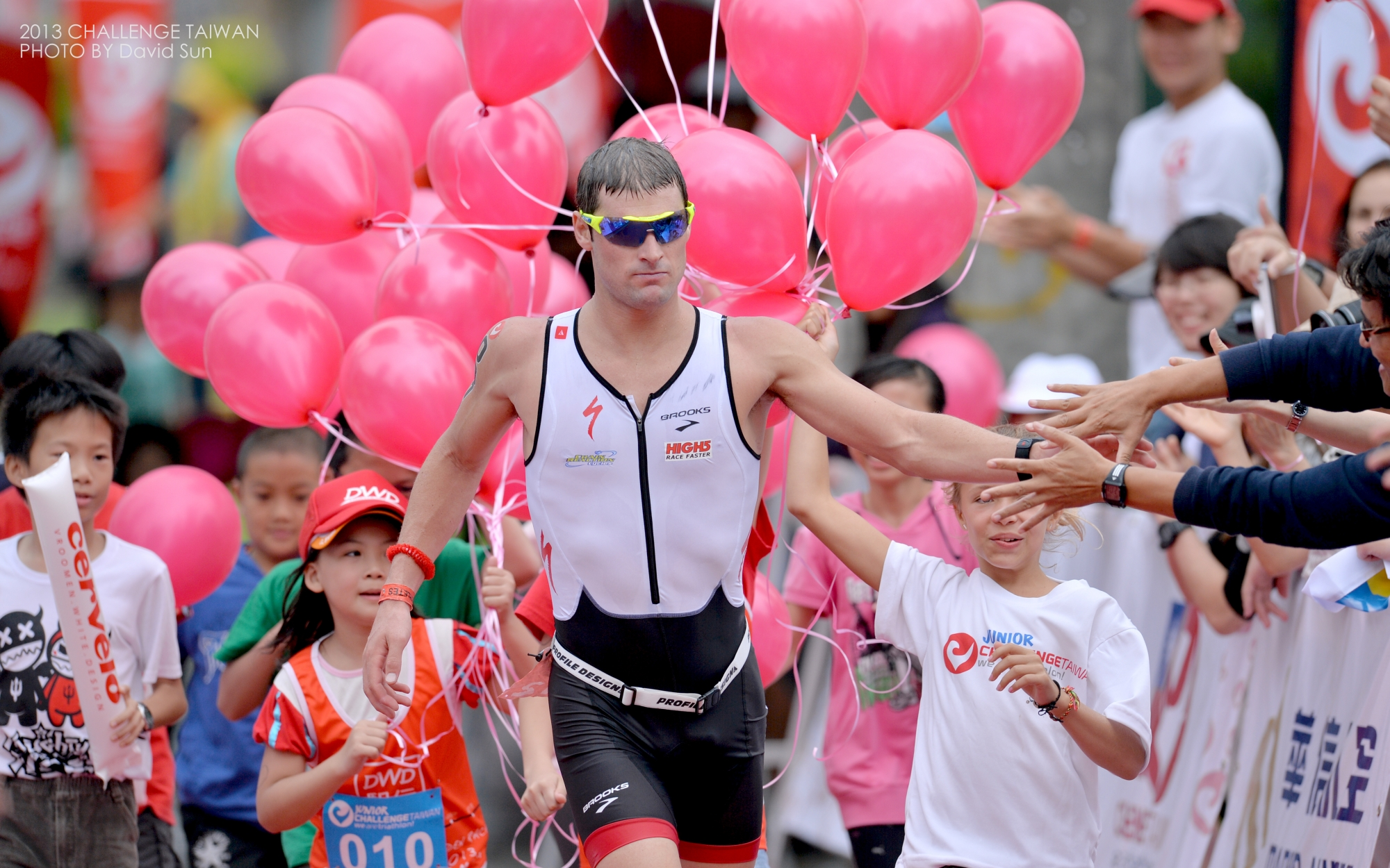 Dylan McNeice enjoys the crowds as winner of Challenge Taiwan 2013